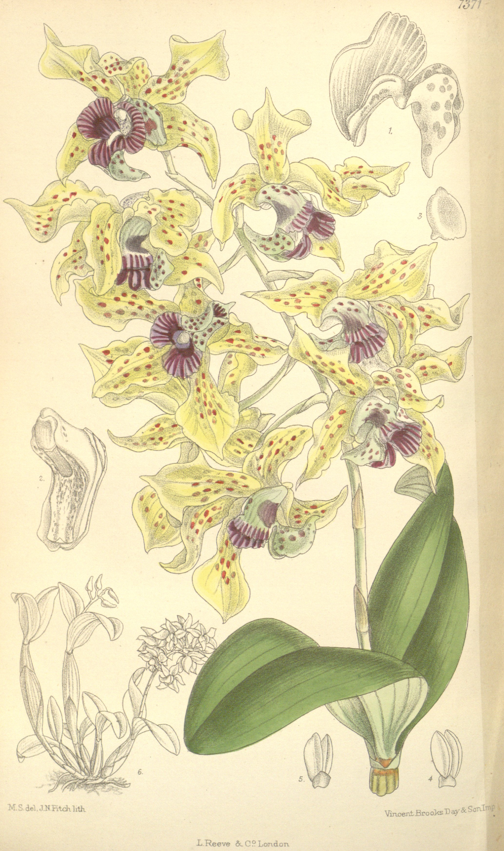 Illustration of Dendrobium atroviolaceum